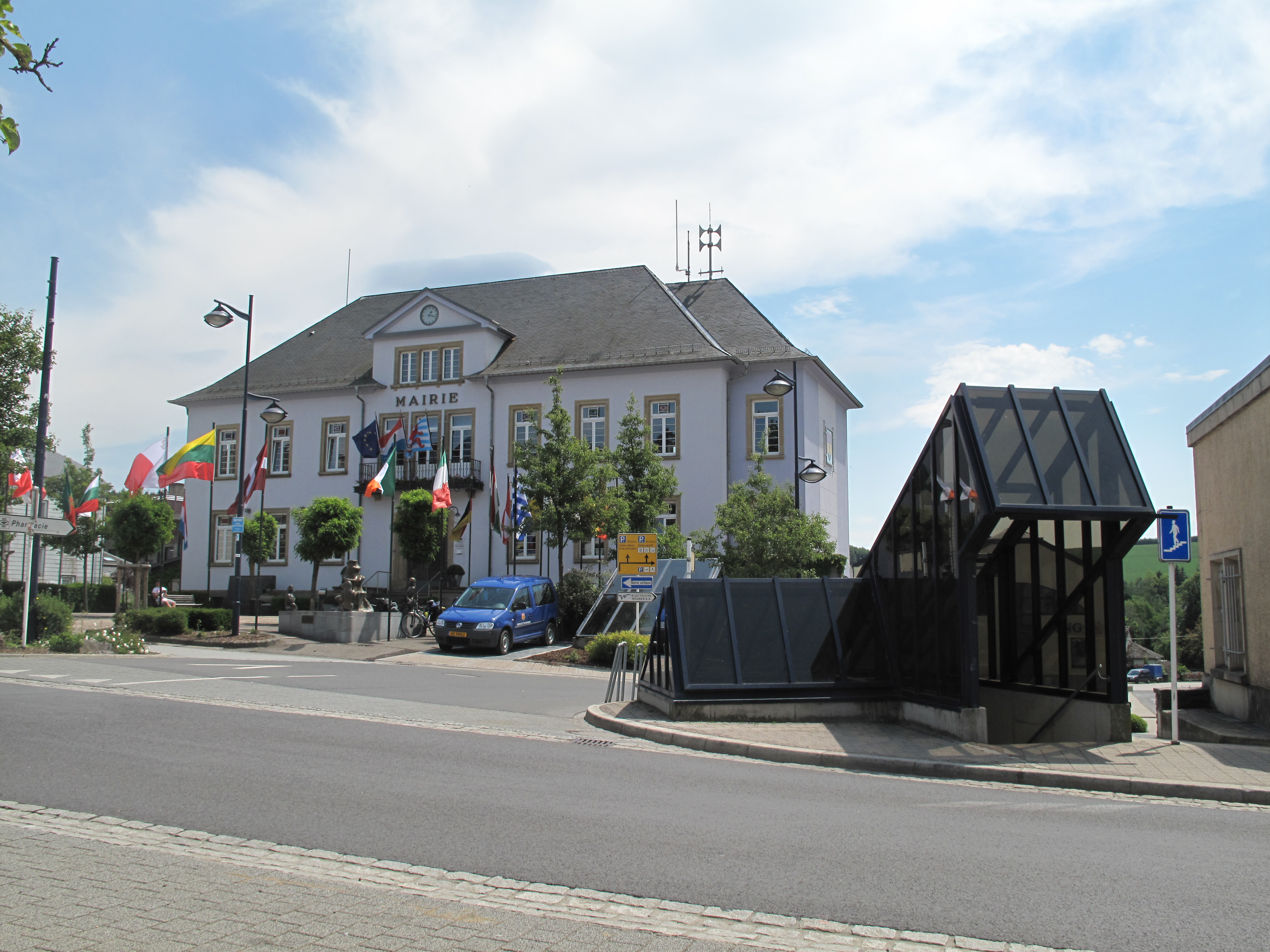 Troisvierges (de: Ulflingen, lb: Ëlwen), townhall